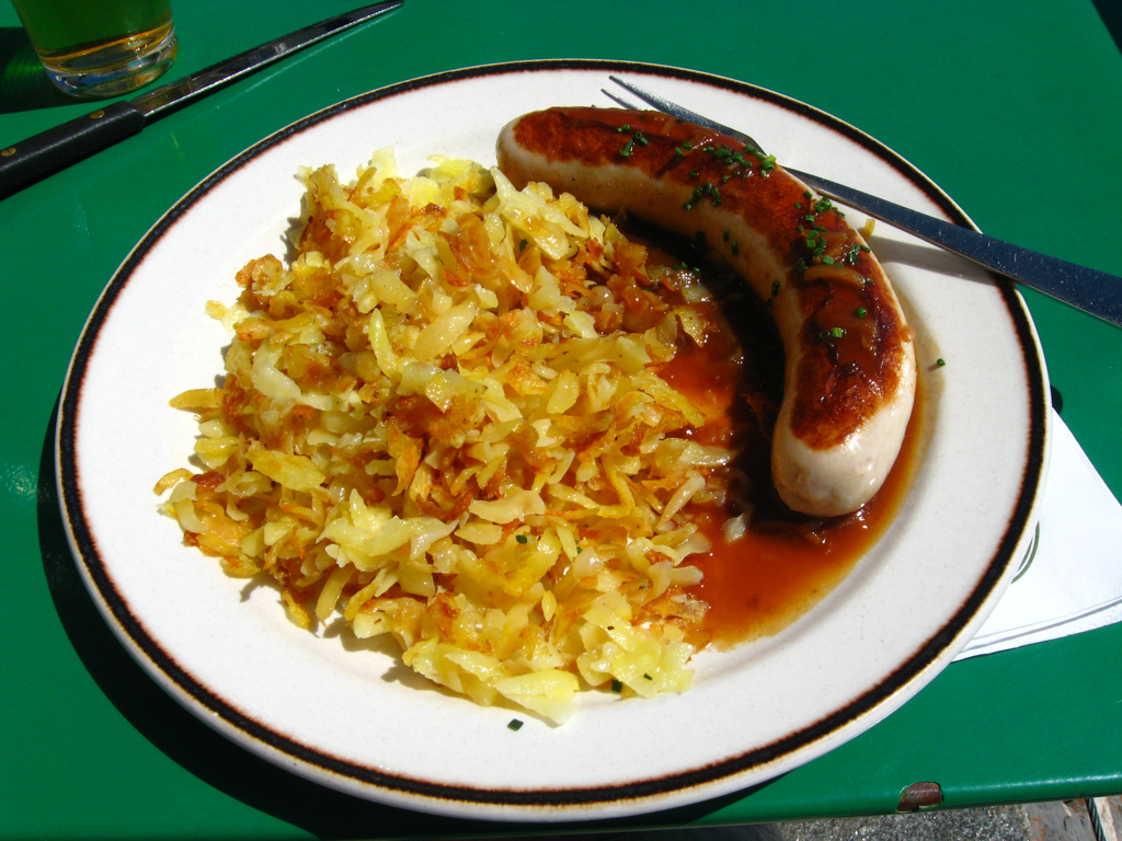 Swiss food